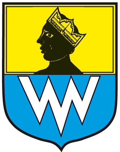 Coat of arms of Groß-Enzersdorf, Lower Austria